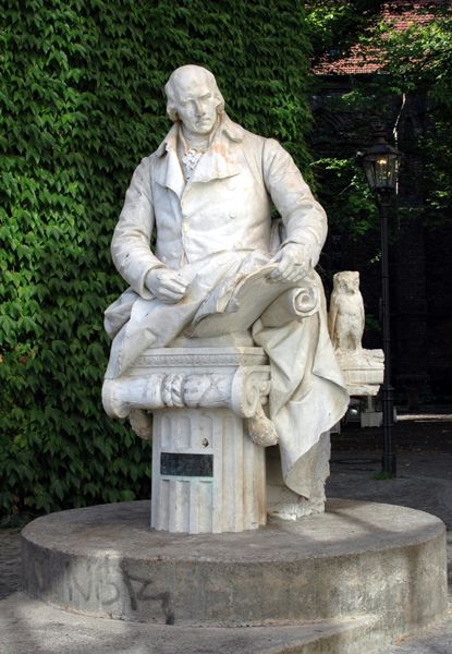 Freiherr vom Stein, memorial by Gustav Eberlein in Berlin-Spandau